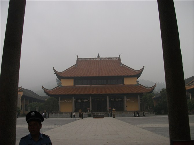 The Multi-Buddha Hall (Wanfo Hall) at Miyin Temple.